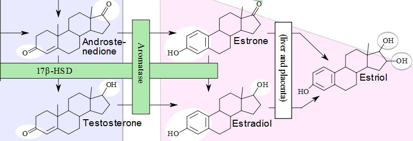 Activity of aromatase diagram.